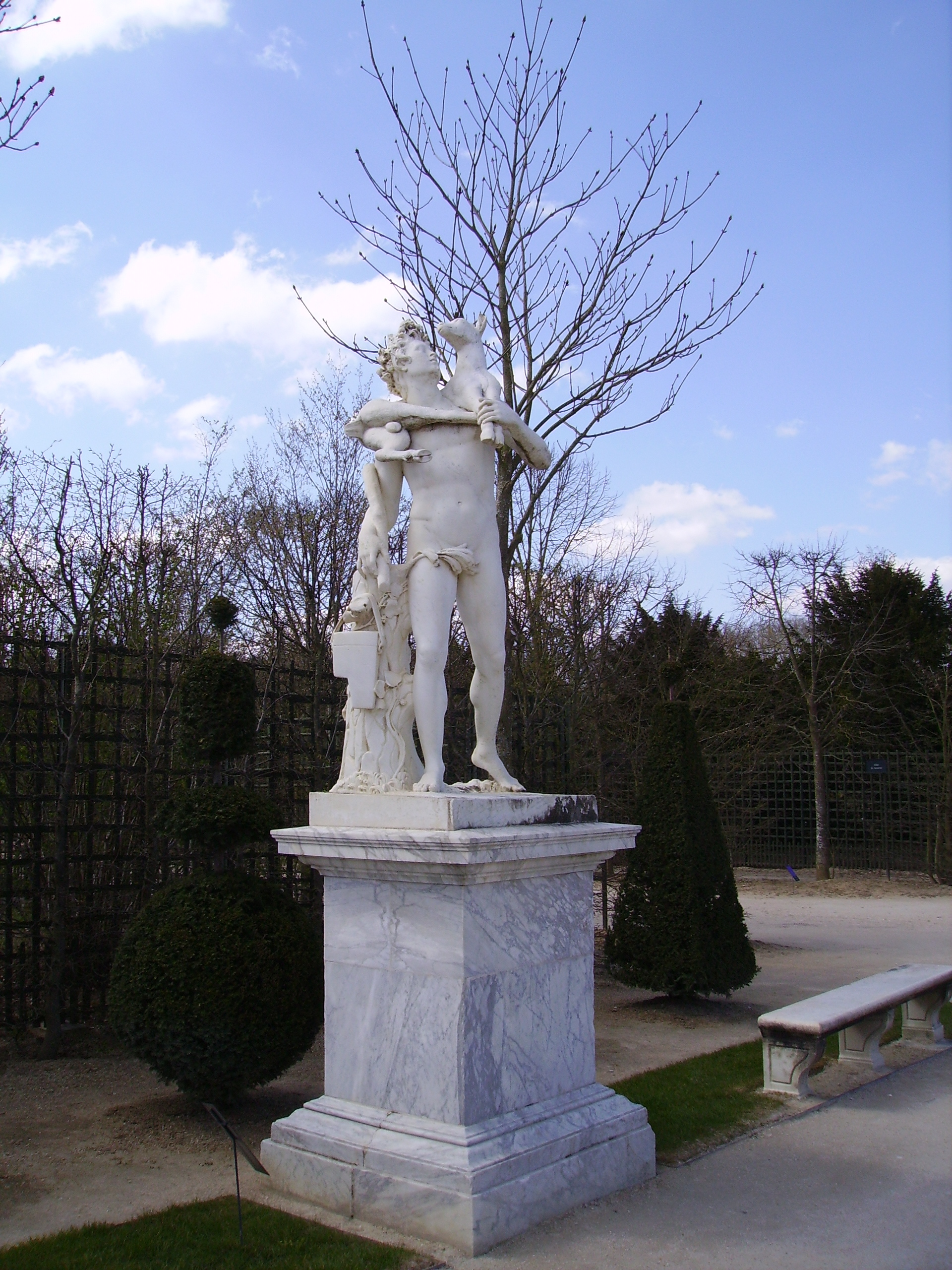 Satyr and Kid. Location: Park of Versailles . Yair Haklai, taken April 4th, 2007